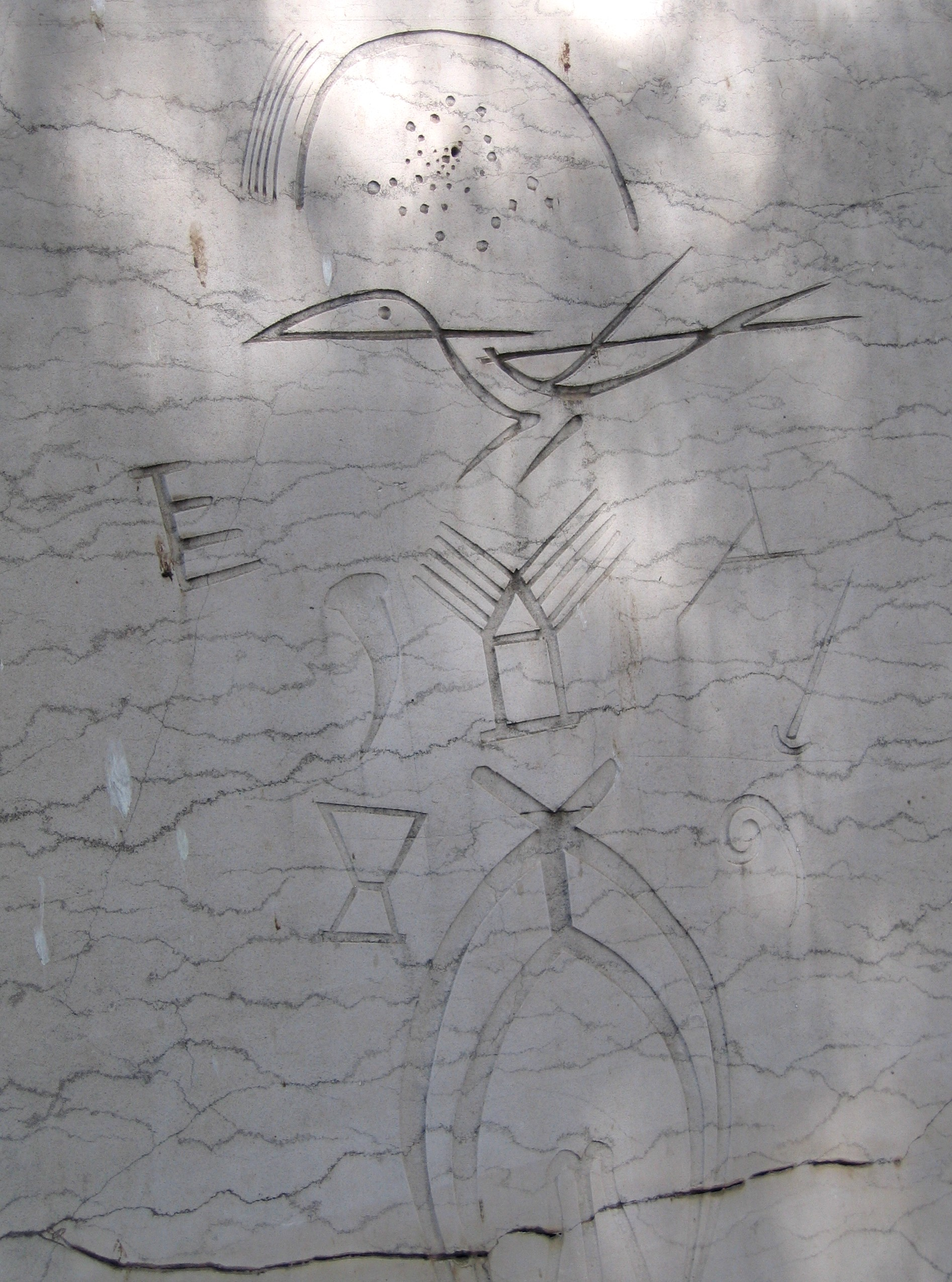 Avraham Ofek (1935-1989), Stone (1987), send blasting on jarusalem stone אברהם אופק, אבן (1987), התזת חול באבן ירושלמית, עזבון האמן photo by talmoryair, 8.4.2007 at the tel aviv museum of art